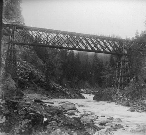 C.P.R. railroad trestle bridge